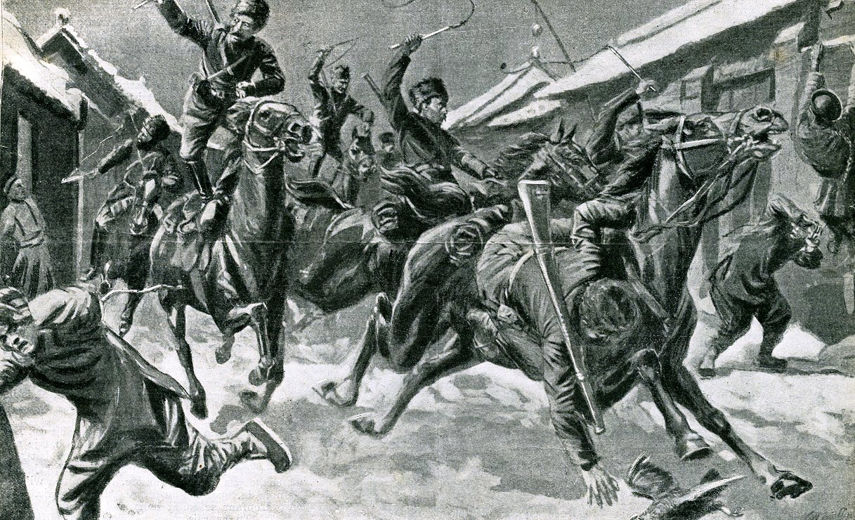 A regiment of Cossacks entering a village in Manchuria